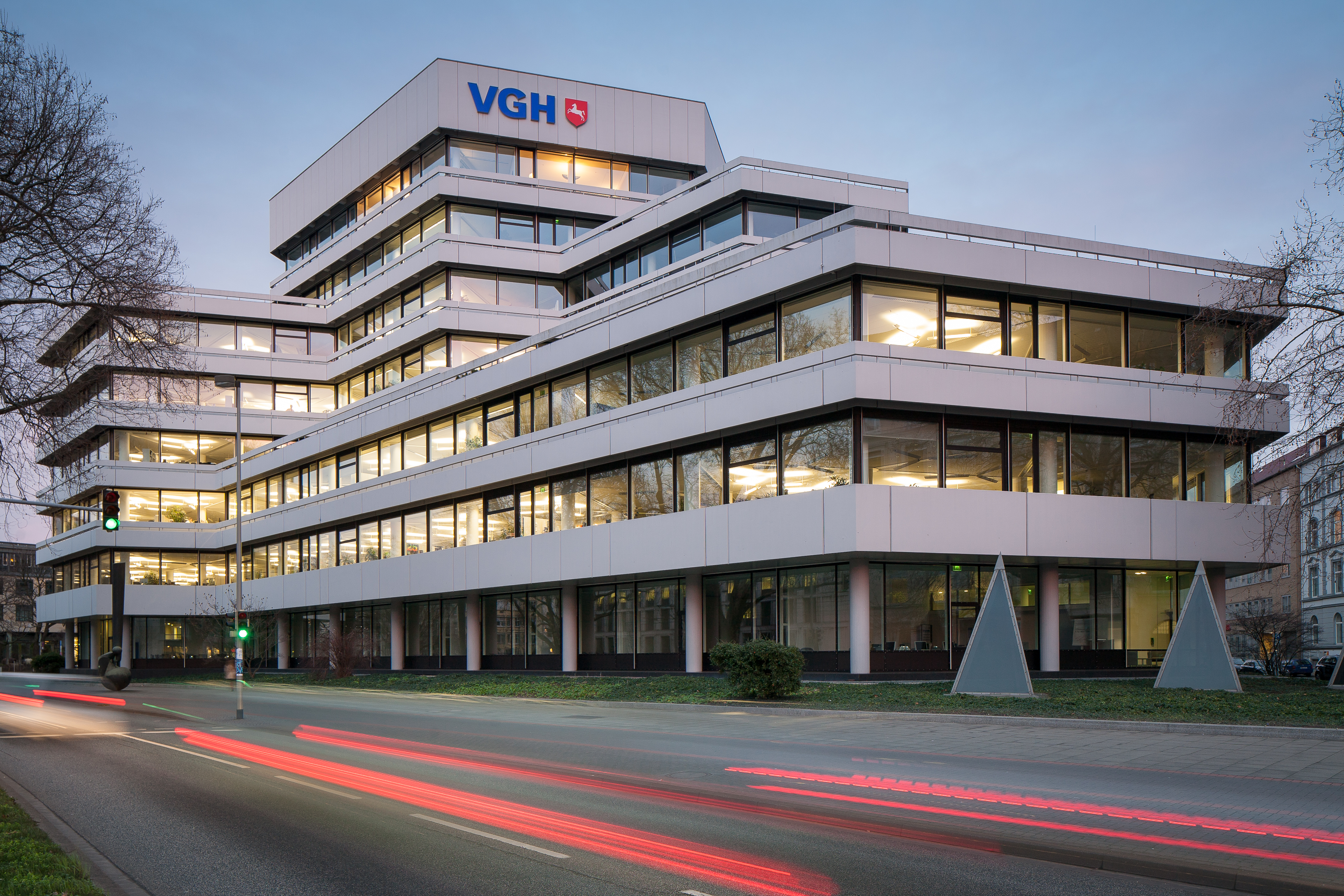 Office building of the VGH insurance company, located in Hanover, Germany.